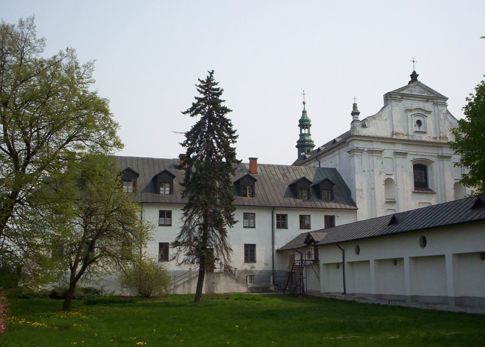 Monastery and church in Miedniewice, Poland.